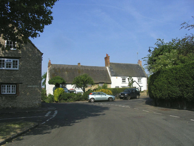 Sherington - North Bucks. A delightful village, a couple of miles north of Newport Pagnell - village has its own website